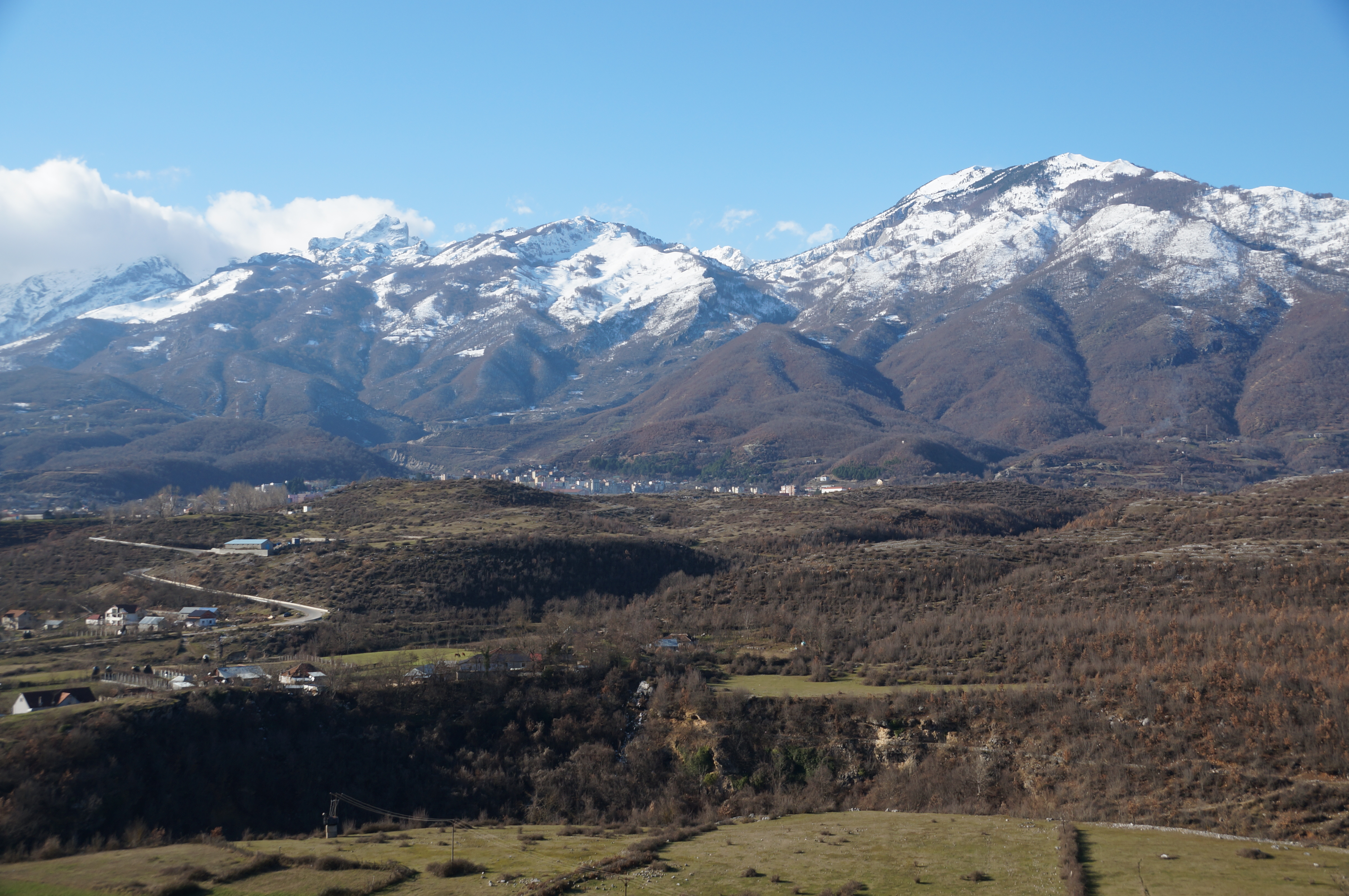 Mountains of Tropoja near Bajram Curri